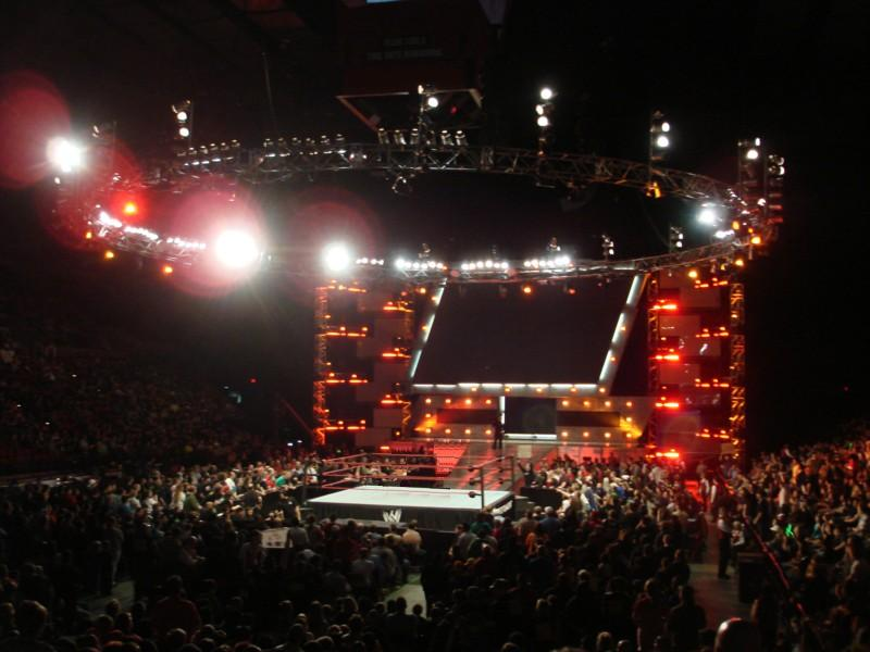 WWE RAW Stage